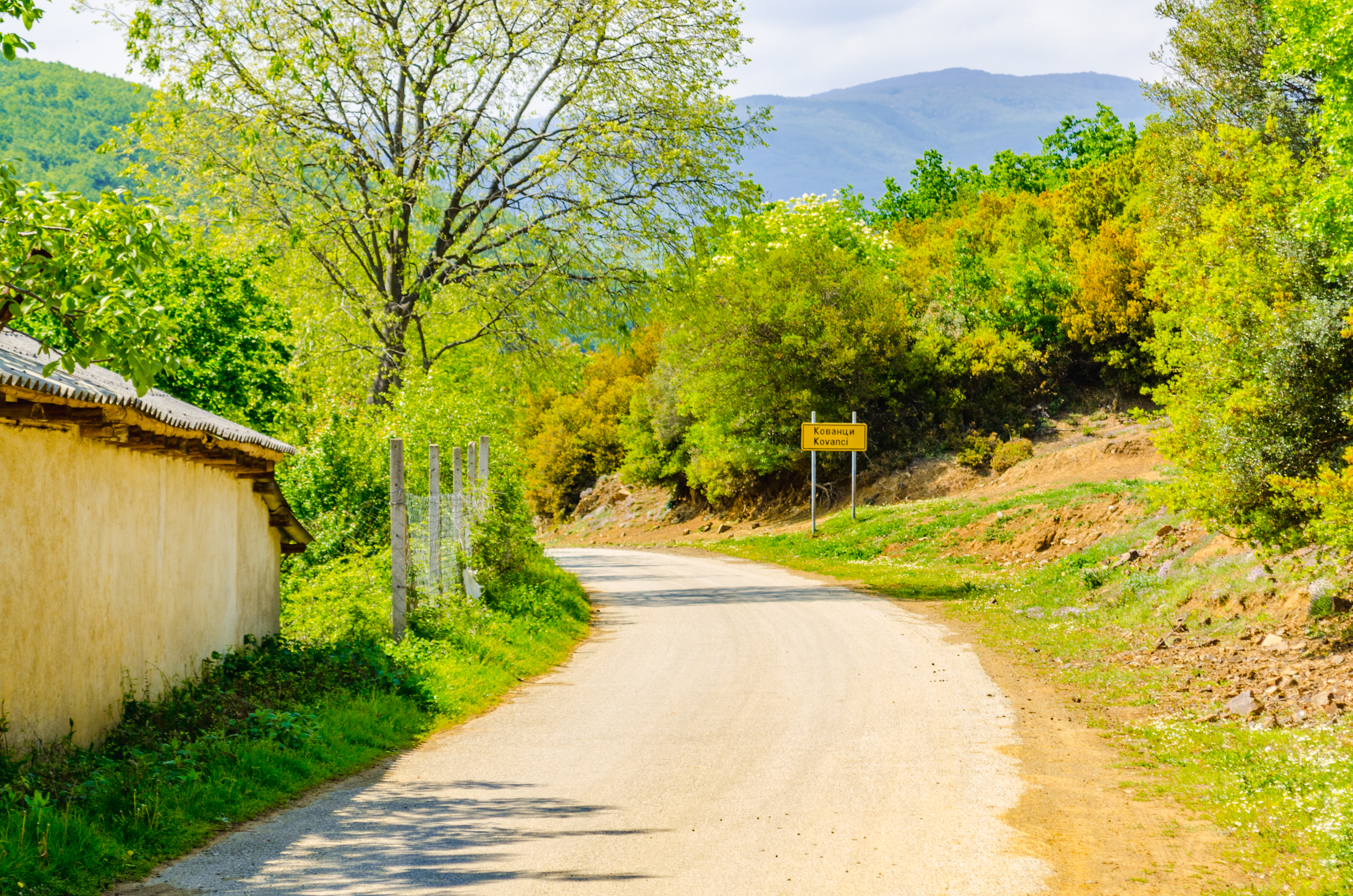 Road sign for the village Kovanec